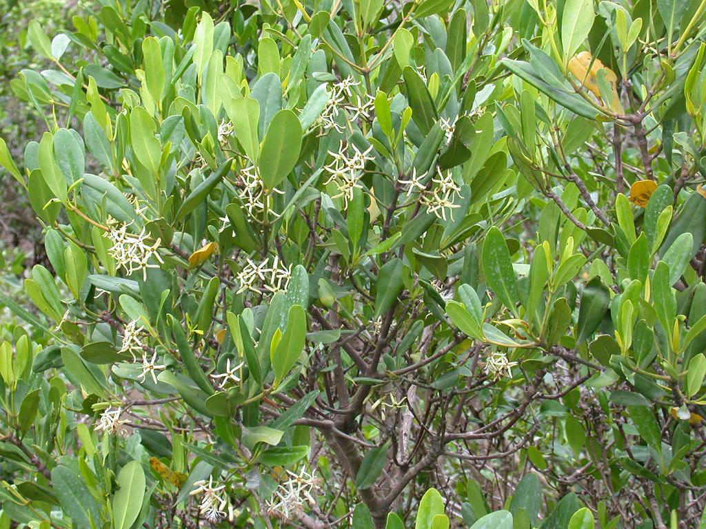 Kandelia obovata(Rhizophoraceae) Japanese name:Mehirugi Date;2004,08,11;Nago city, Okinawa prefecture, Japan Author;Keisotyo